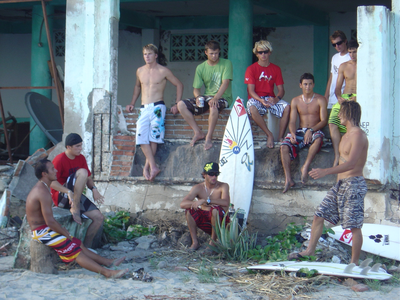 quiksilver boardshorts featuring press studs